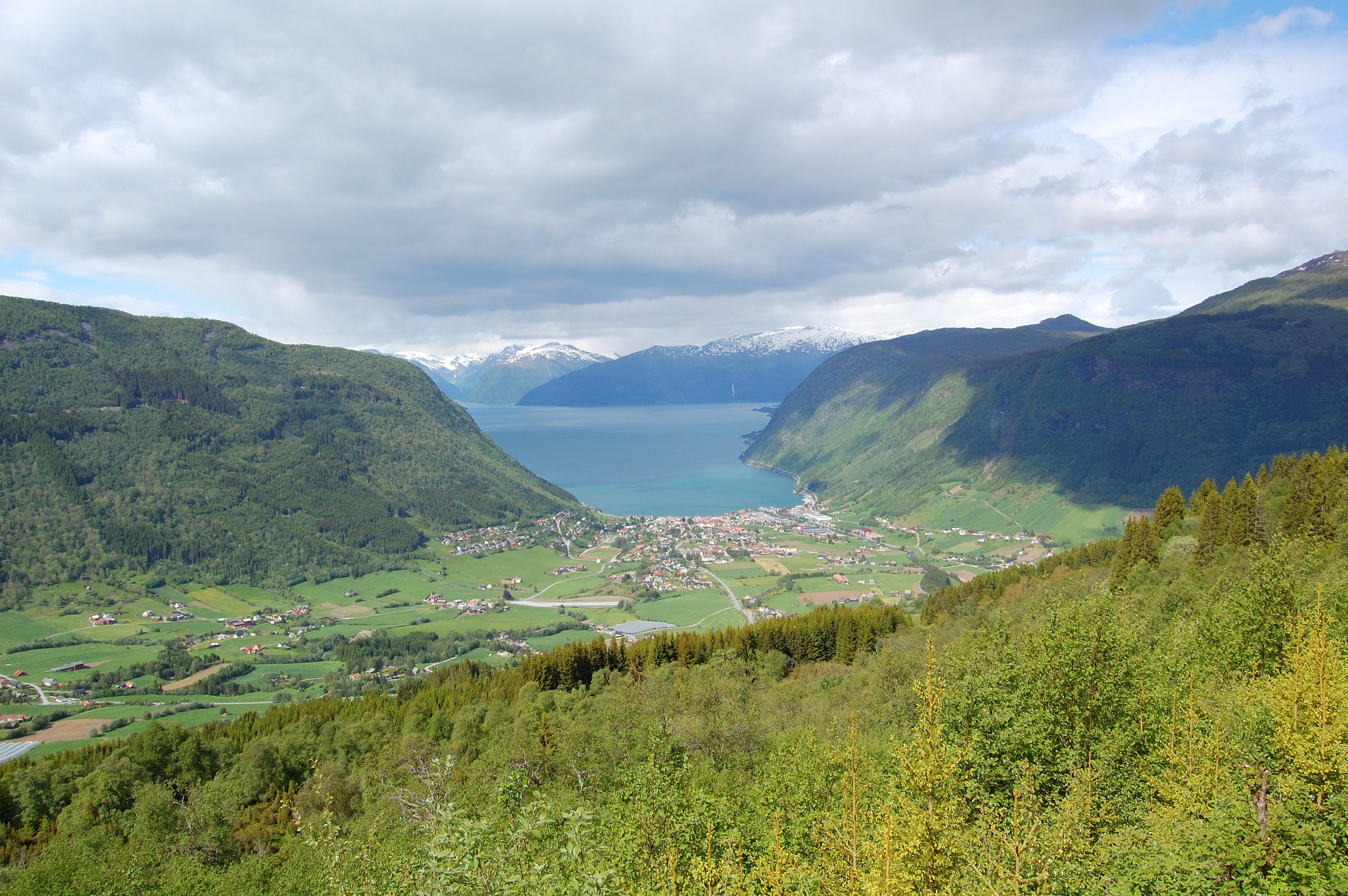 Vik municipality in the Sogn og Fjordane county, Norway.